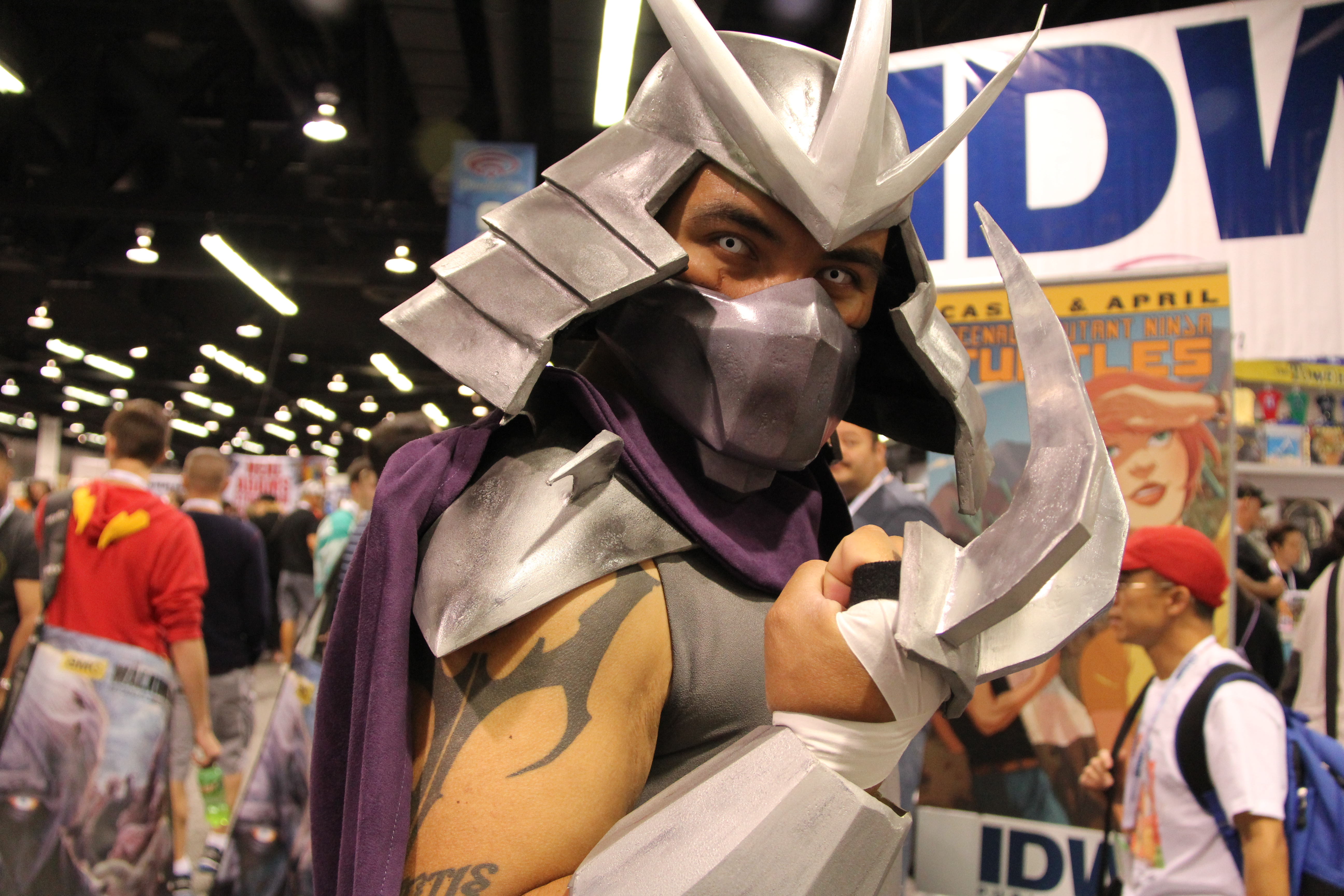 A cosplay of The Shredder from Teenage Mutant Ninja Turtles